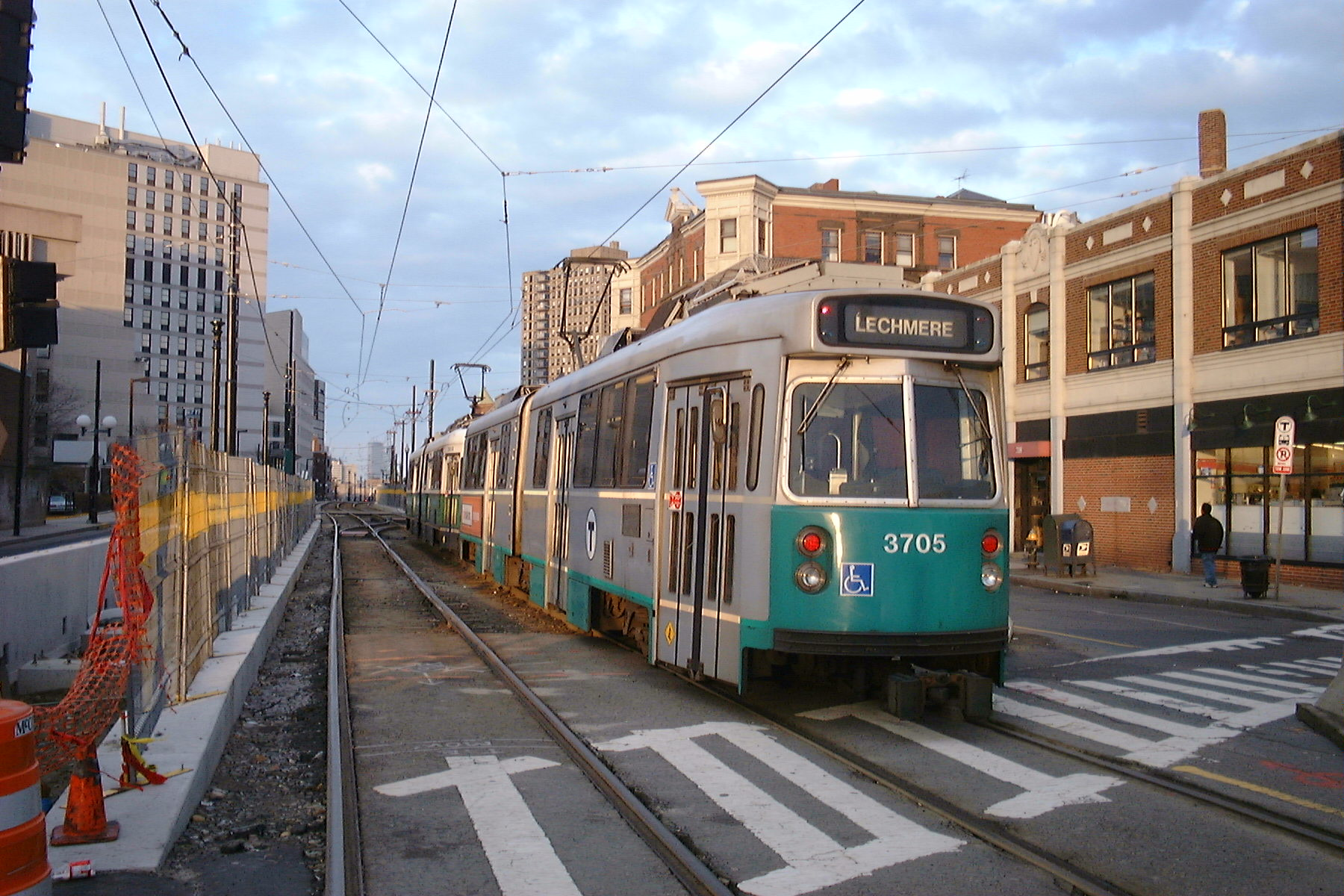 Boston "Green Line" streetcar at Brigham Circle stop on the MBTA Green Line E branch. This view is from the median of Huntington Avenue facing northeast.